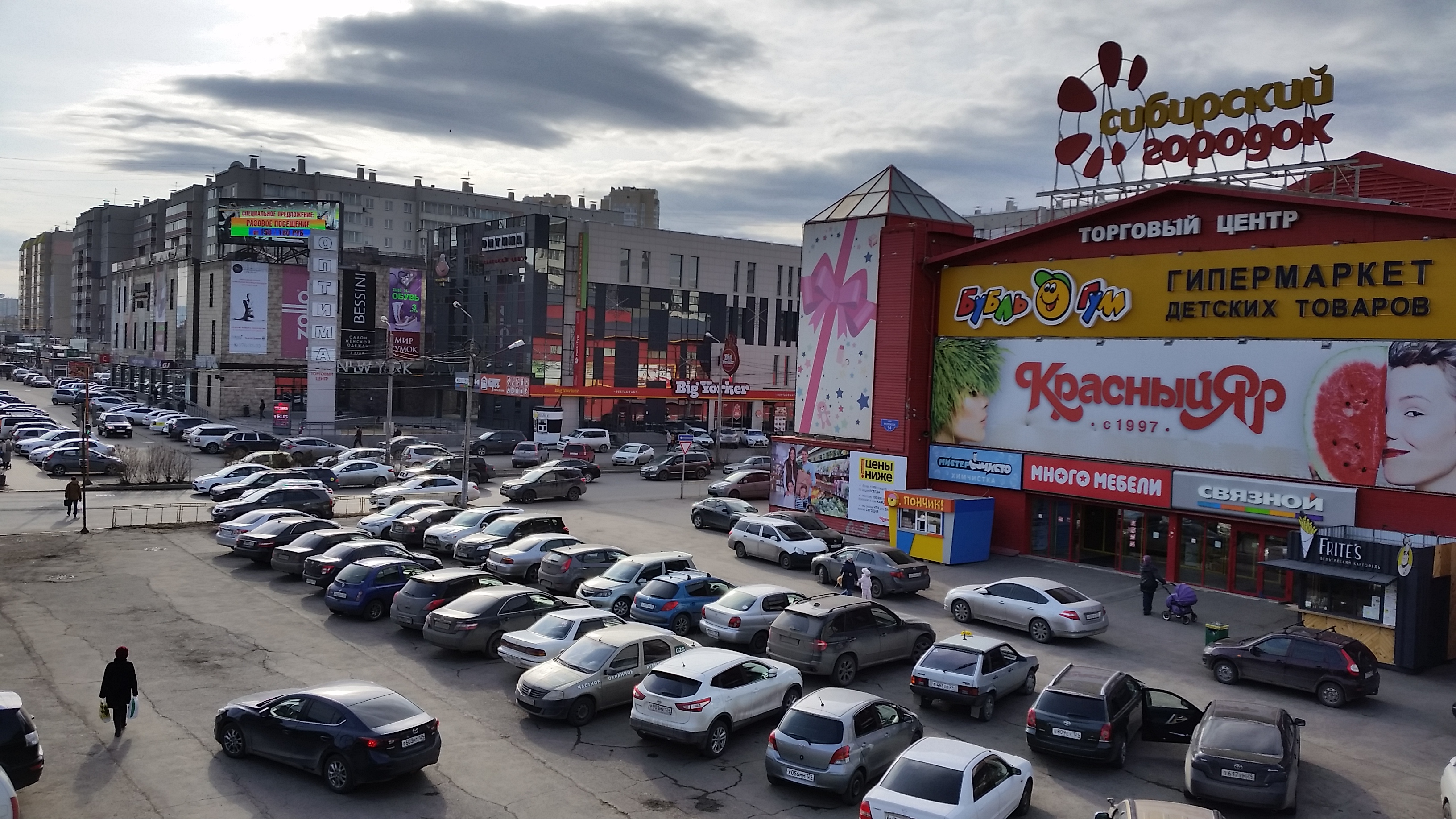 The corner of Molokov and Baturin streets. Shopping center "Optima" and "Sibirsky gorodok" (Siberian town, former Alpi).